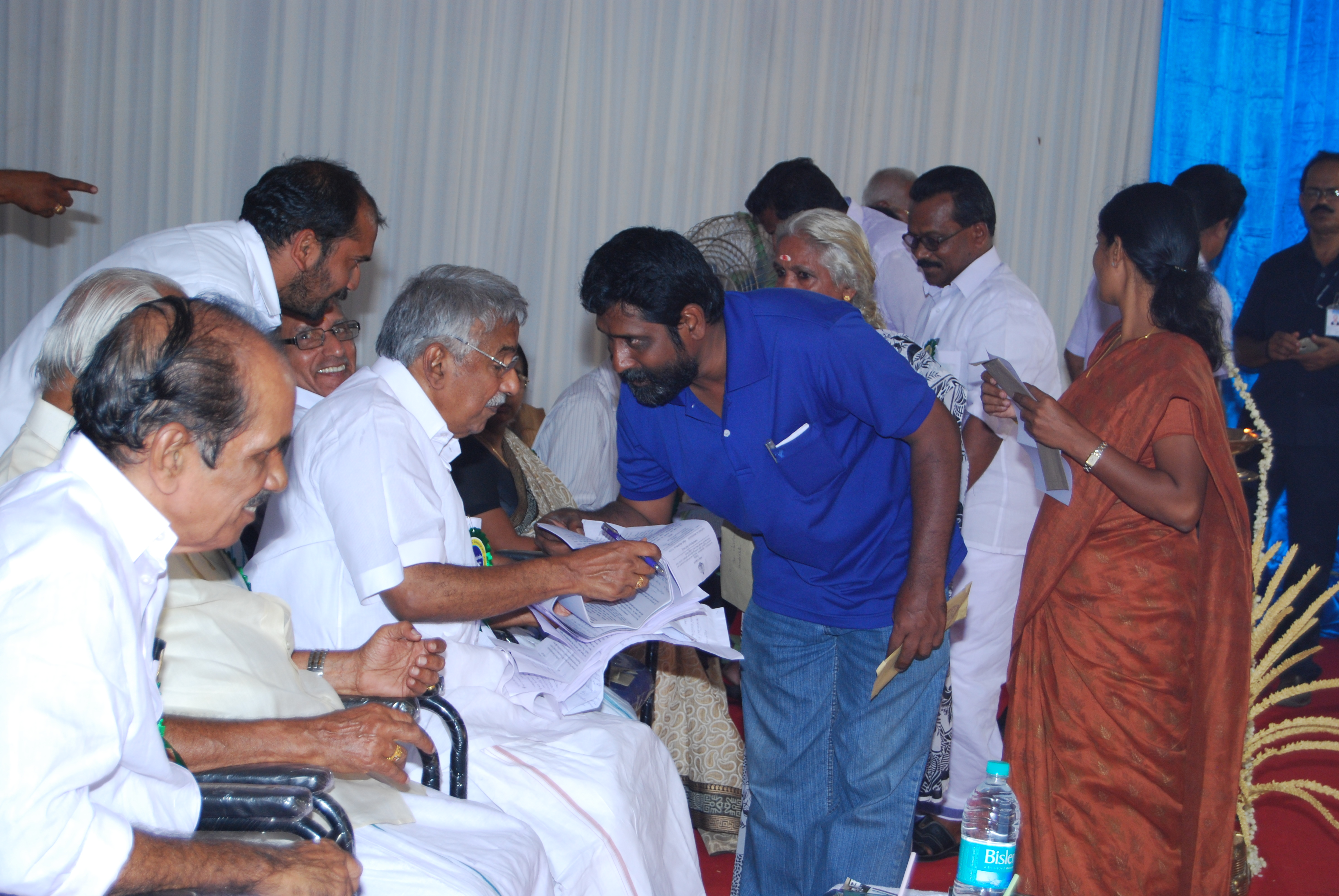 Sathish Kalathil Submitting memorandum against termination of Sree Rama Varma Music School to Oommen Chandy at the function of Muthuvara Puzhakkal Library platinum jubilee celebration.